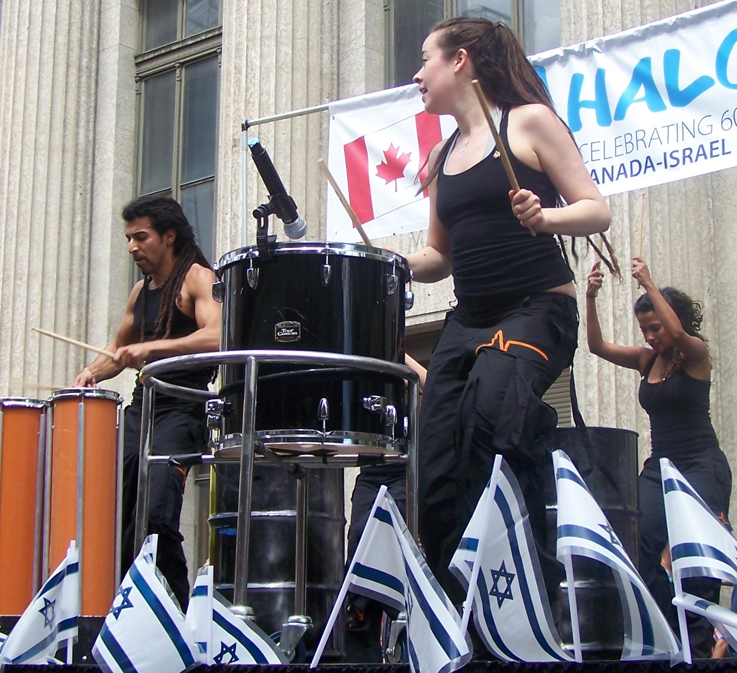 Members of Tararam, an Israeli musical/dance group, performing on Stephen Avenue Mall (near 1 Street SW) in Calgary, Alberta, Canada. The image was cropped from the original.